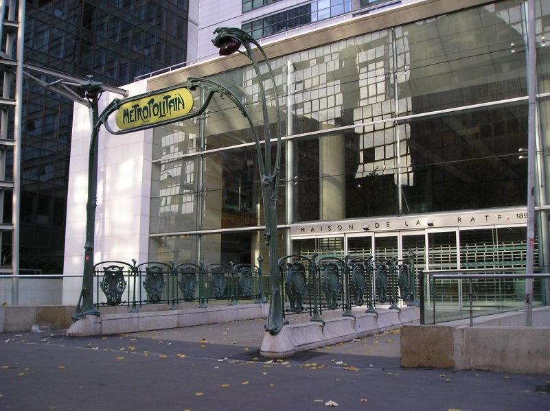 Maison de la RATP, the RATP headquarters, in the 12th arrondissement of Paris